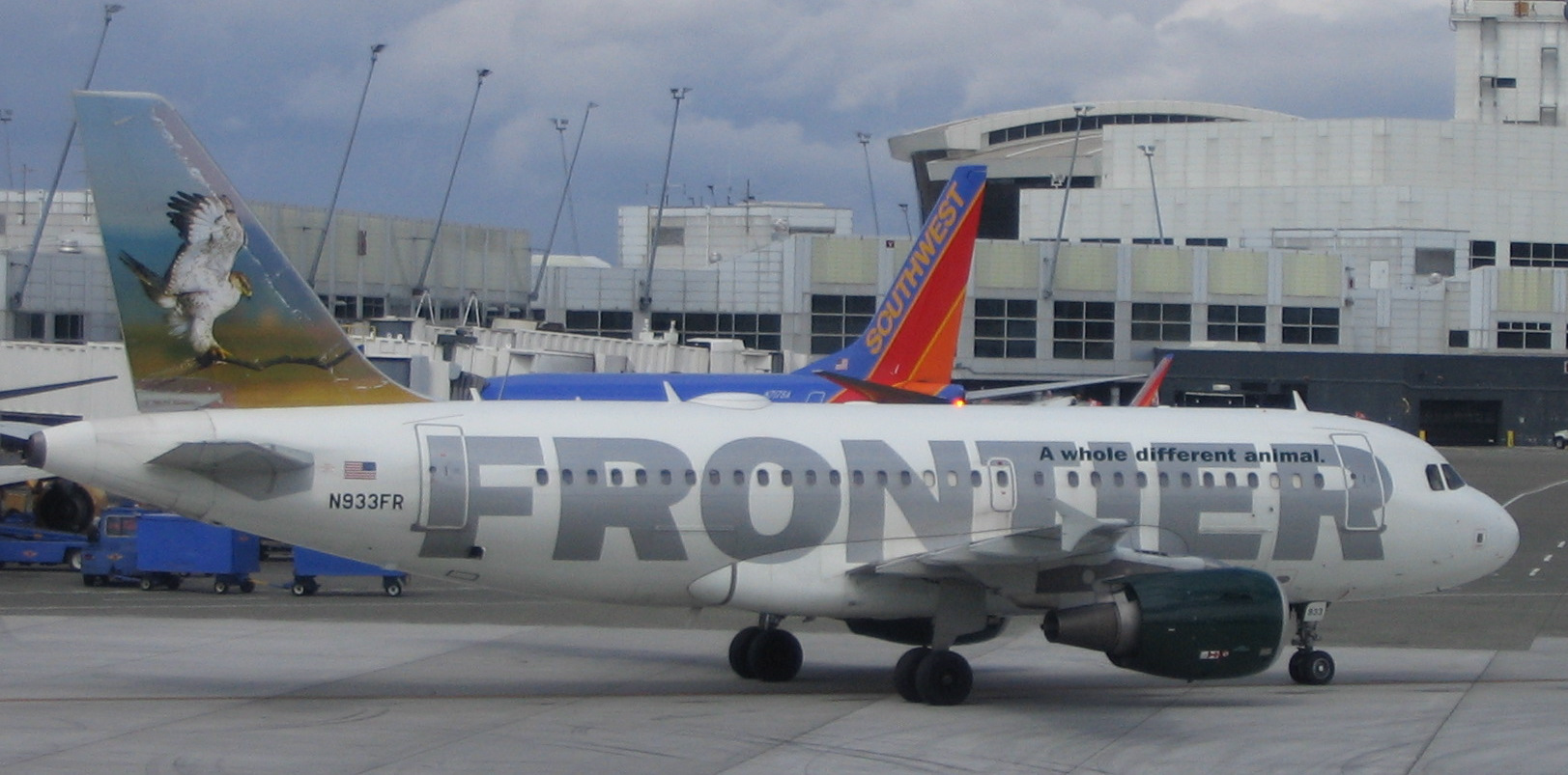 Airbus A319-111 – Frontier Airlines – "Sebastian" the Hawk (Registration number: N933FR) at Seattle-Tacoma Airport